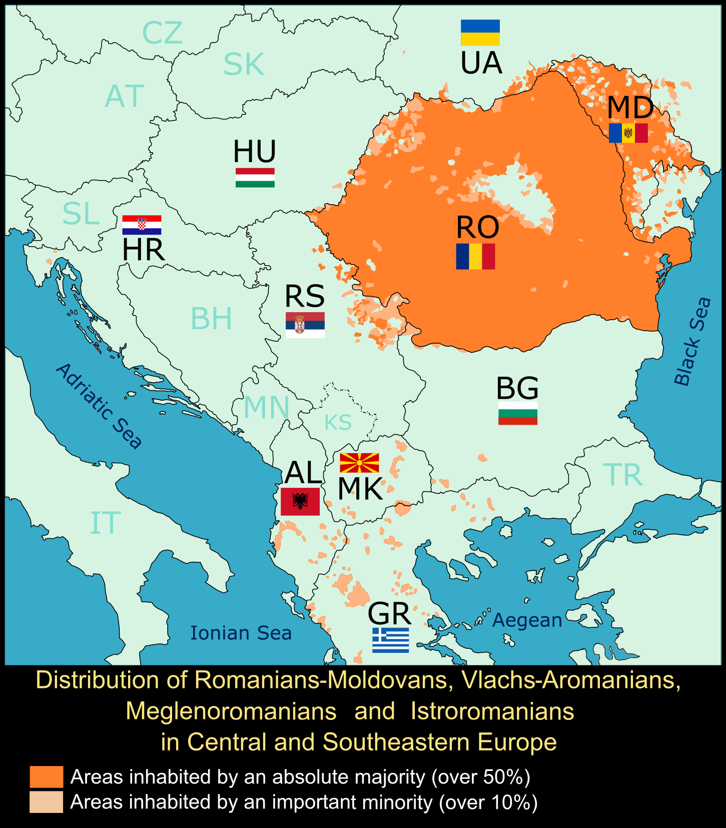 Distribution of Romanians, Moldovans, Vlachs, Aromanians, Megleno-Romanians and Istro-Romanians in the Central and Southeastern Europe.